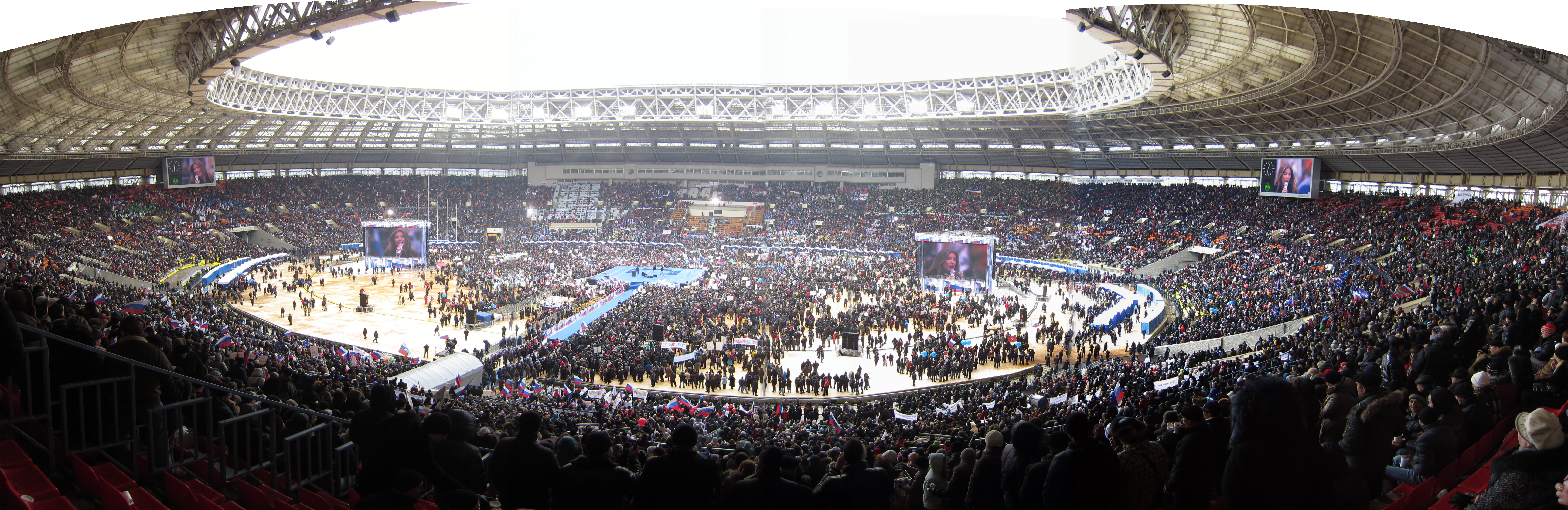 Pro-Putin concert at Luzhniki Stadium